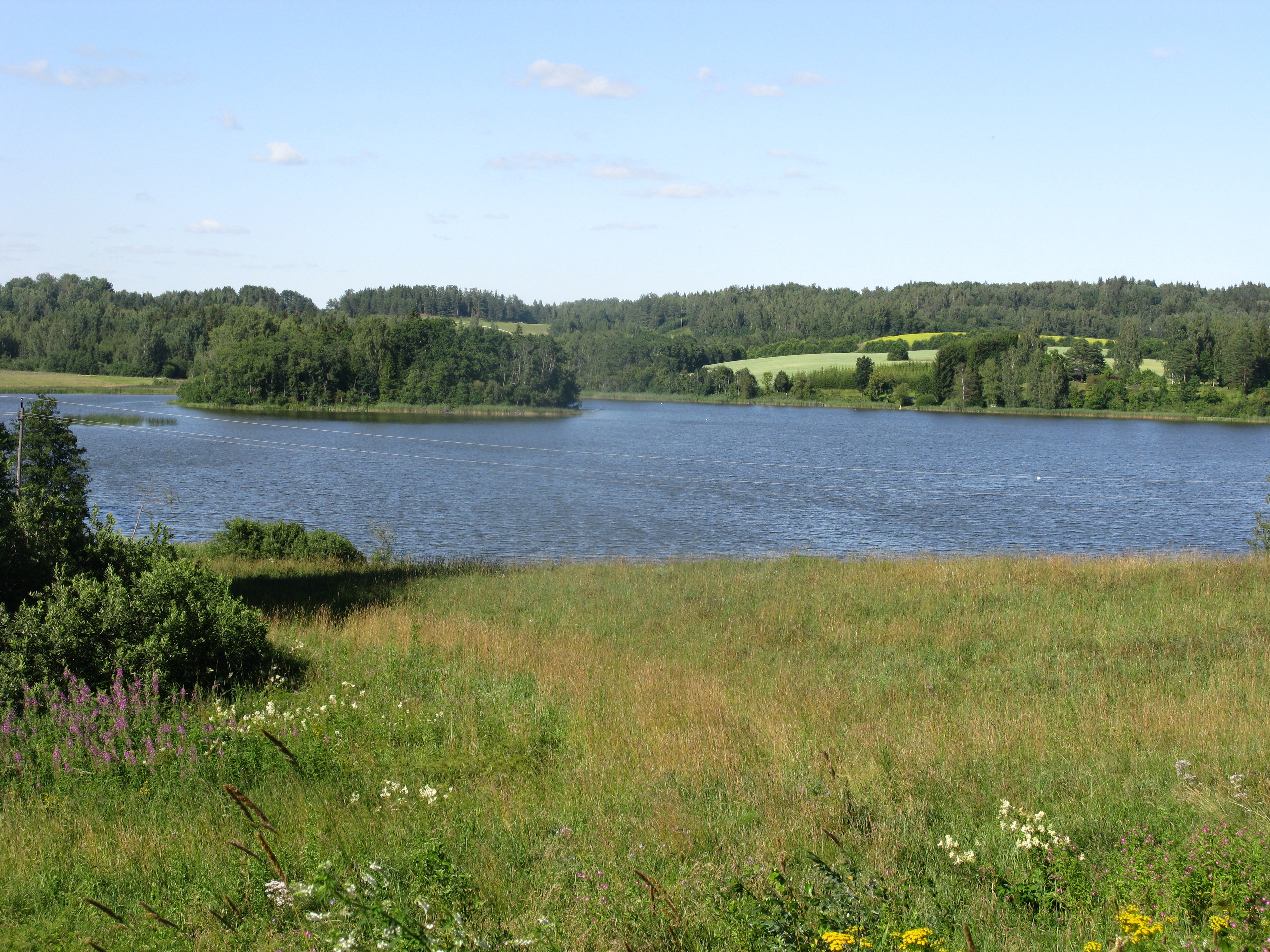 Lake Kaarna järv, located in Valga District, Estonia. Picture is taken on 27. July 2008